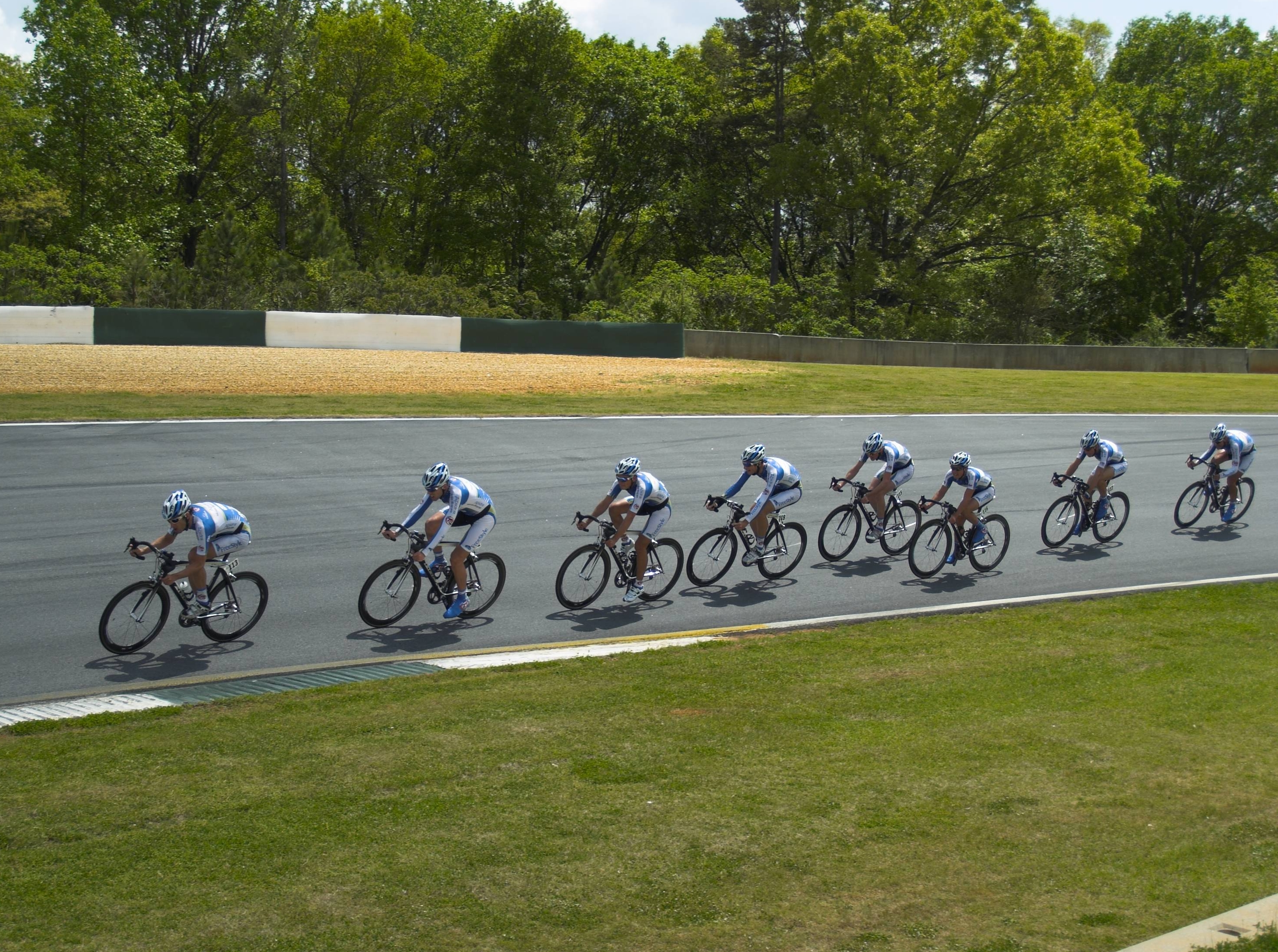 A photo of Team Type 1 at the Team Time Trial of the Tour de Georgia